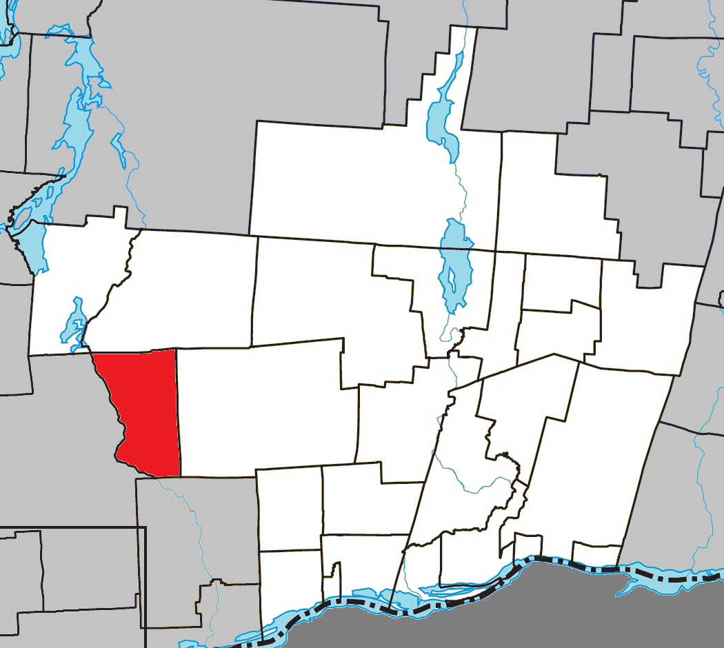 Location of Notre-Dame-de-la-Salette, Quebec within Les Collines-de-l'Outaouais Regional County Municipality.